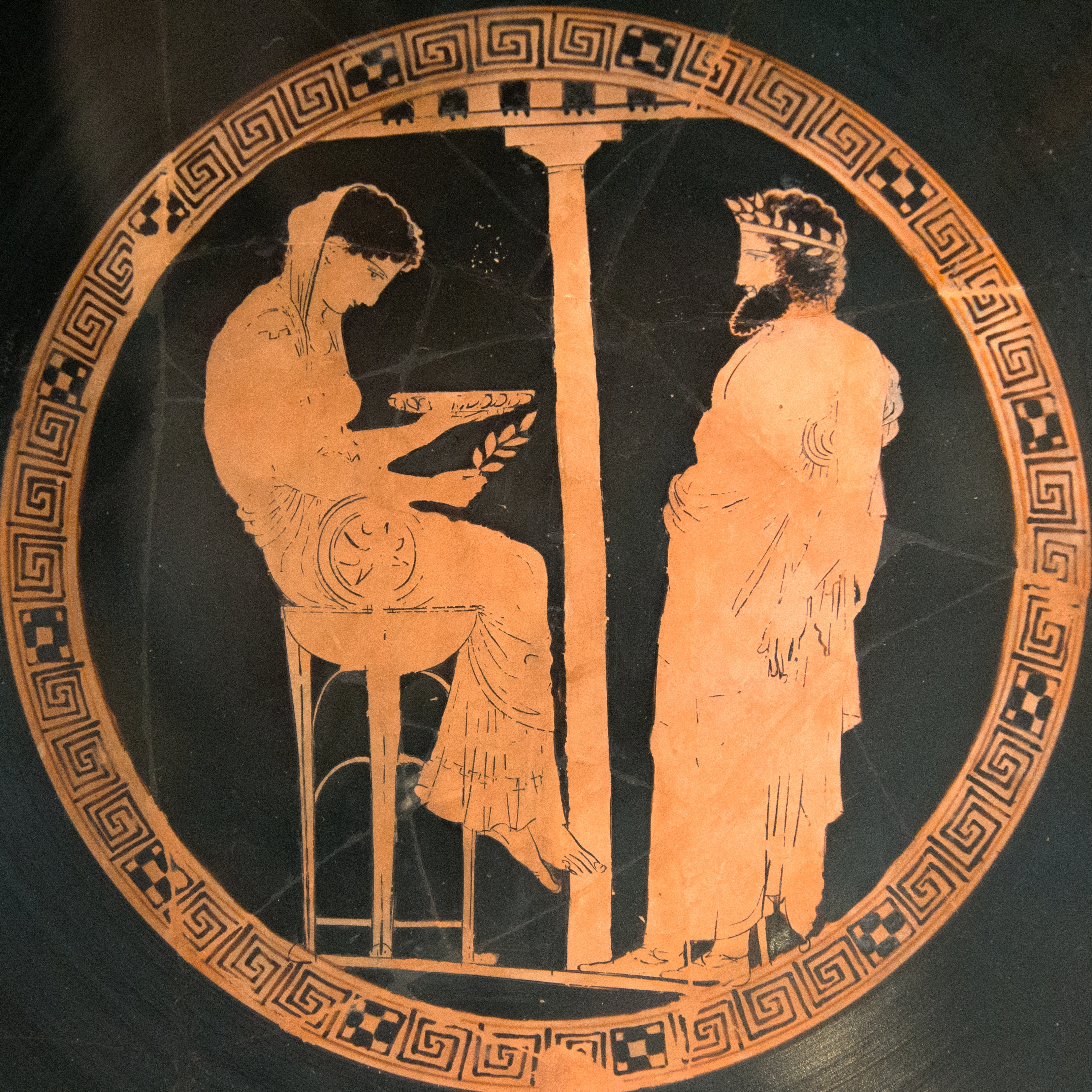 Attic red-figure kylix from Vulci (Italy), 440-430 BC. Kodros Painter. Oracle of Delphi: King Aigeus in front of the Pythia. Antikensammlung Berlin, Altes Museum, F 2538.